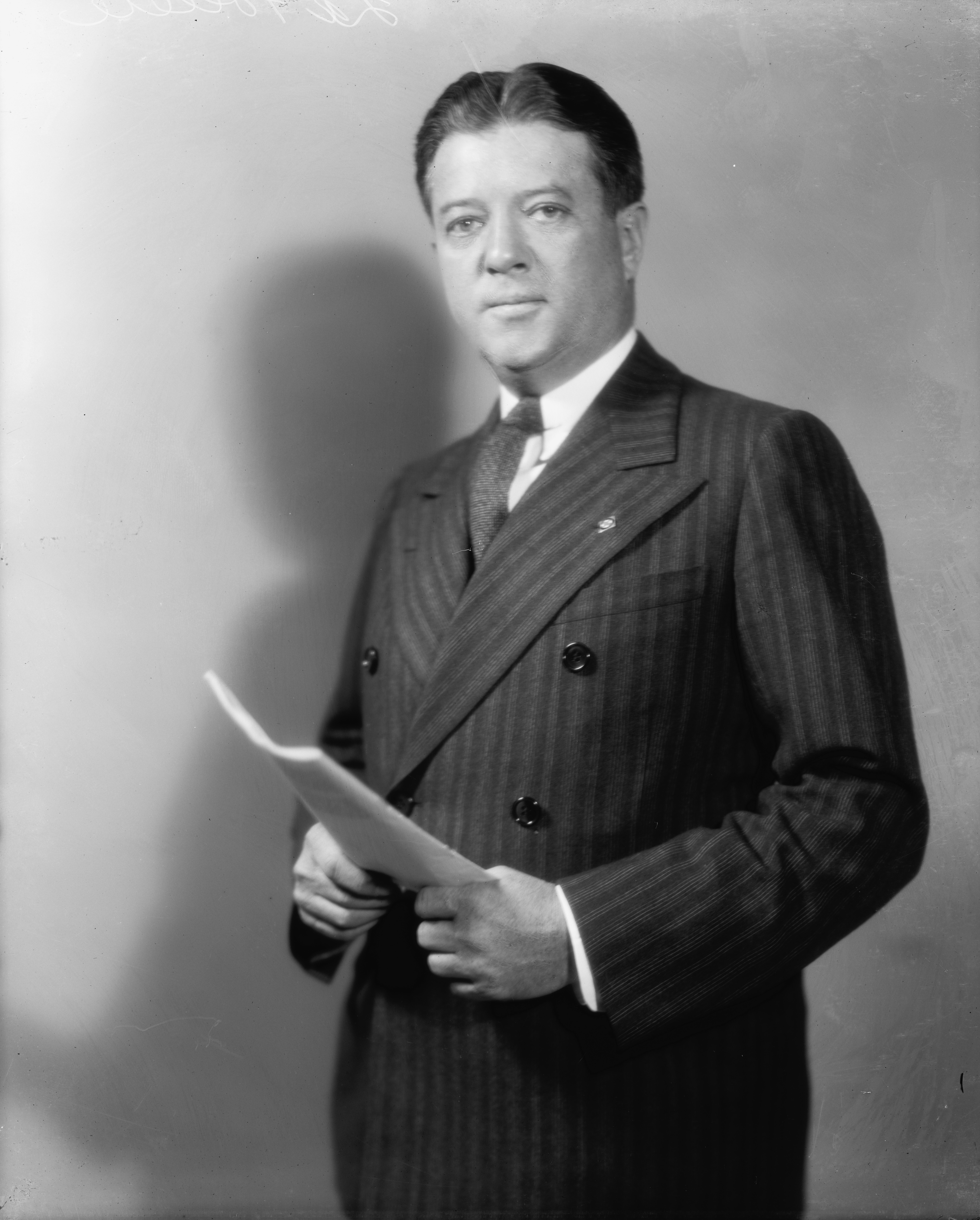 Title: LaFOLLETTE, ROBERT. SENATOR Abstract/medium: 1 negative : glass ; 8 x 10 in. or smaller